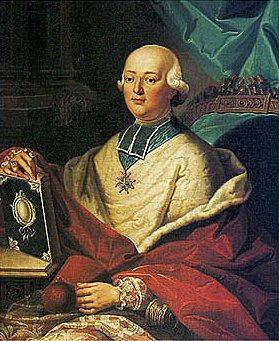 Portrait of Cardinal de Rohan (1734-1803)